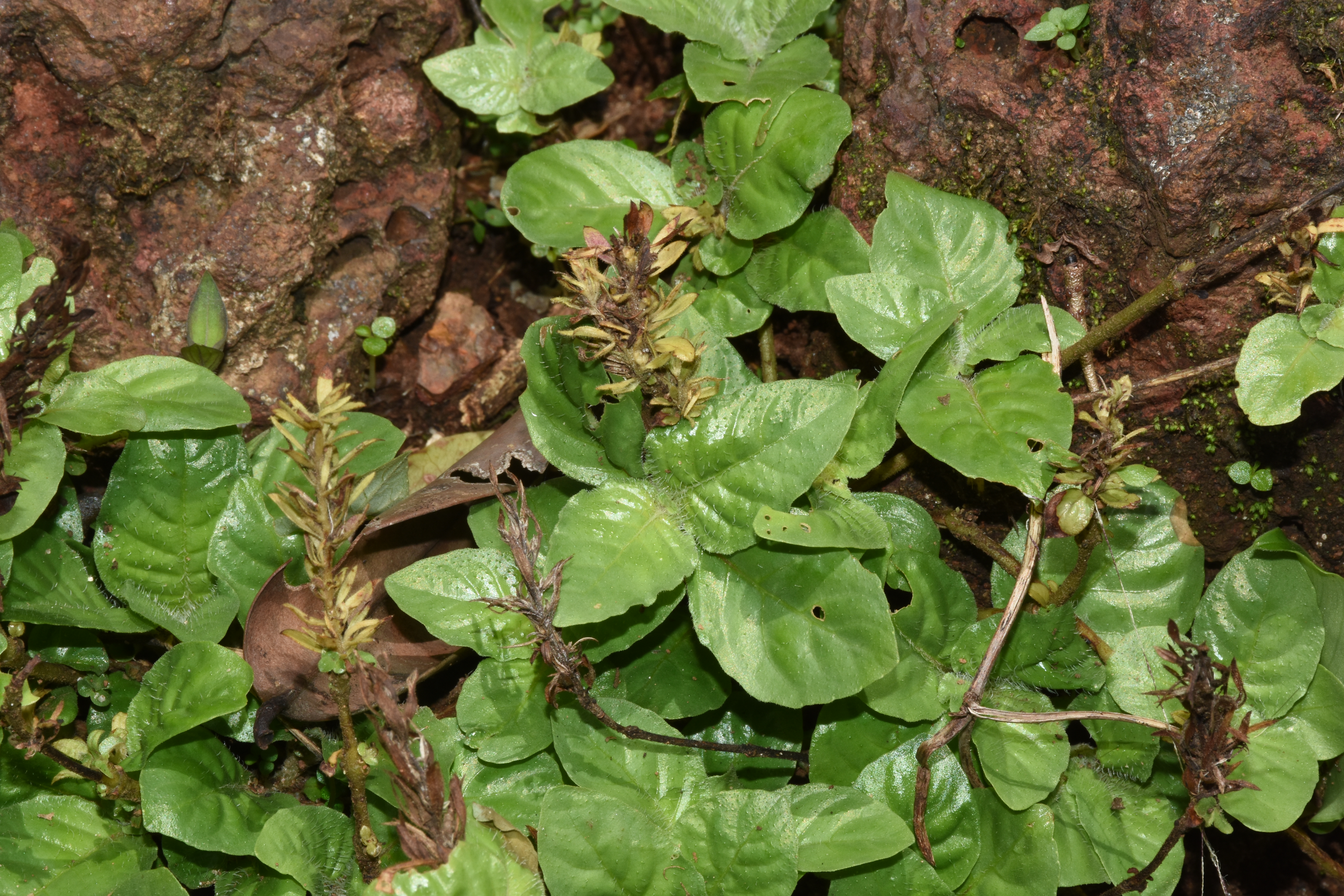 A flowering annual plat of Acanthaceae